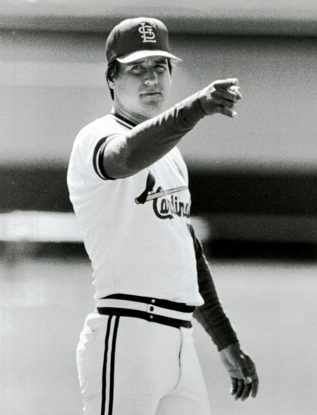 Image cropped from a black and white photo of professional baseball coach Dave Bialas